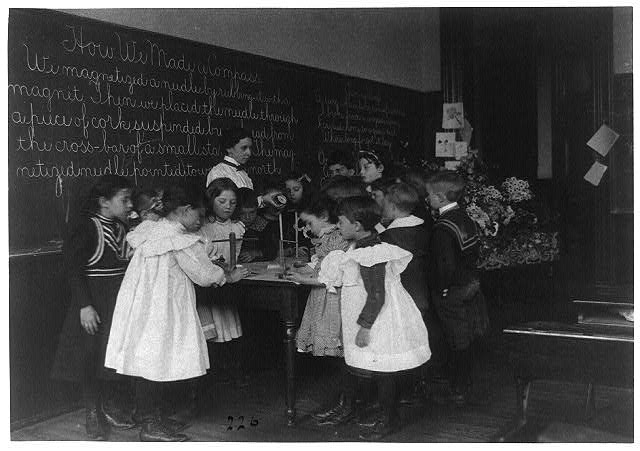 Children in Washington D.C. learning how a compass works. An example of the experiential learning of the time. Photo by Frances Benjamin Johnston. (1899).